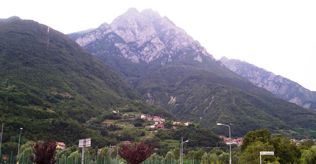 loc. Castello, Losine, Val Camonica